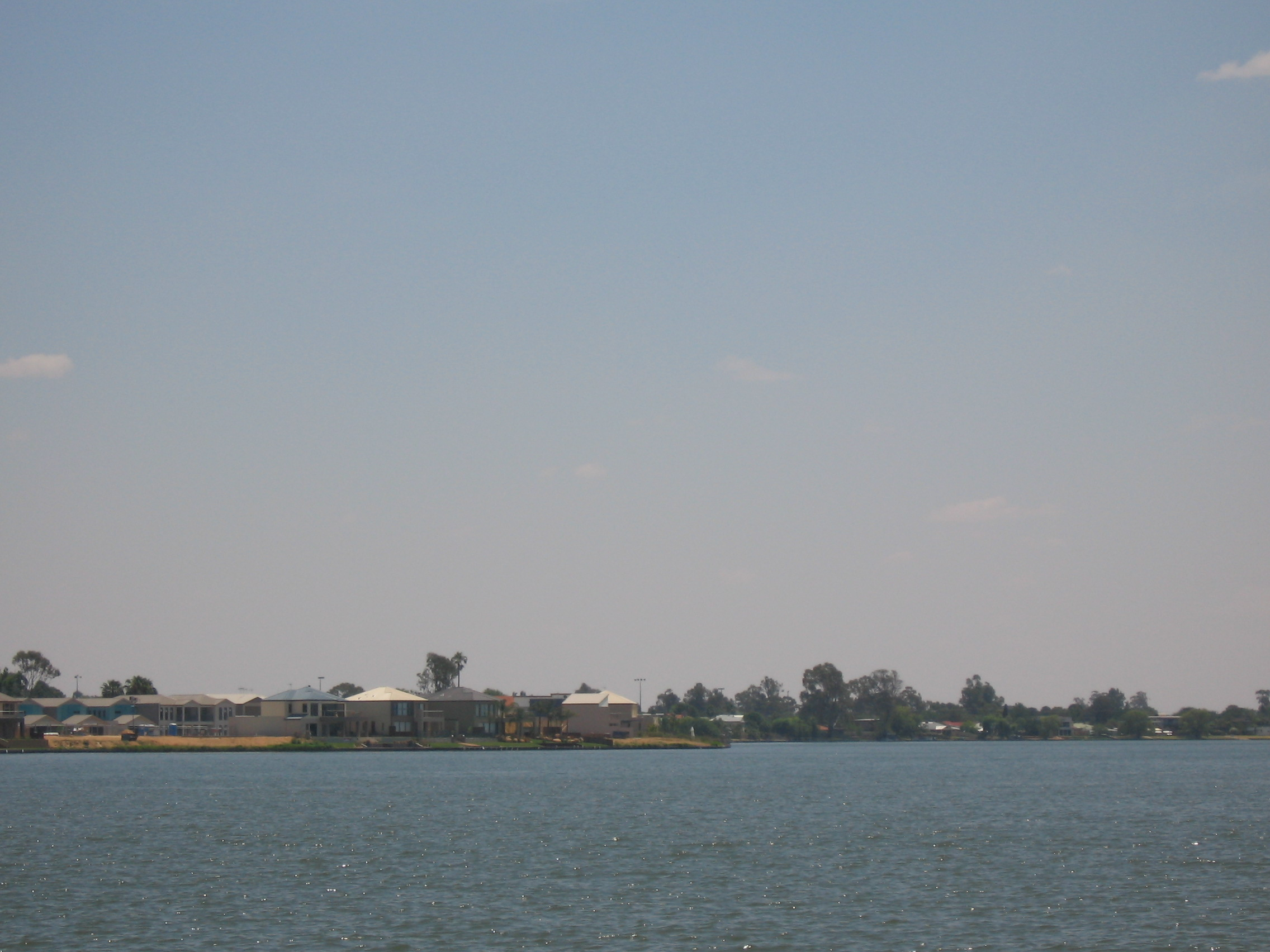 Lake Mulwala, looking toward Mulwala. Taken by